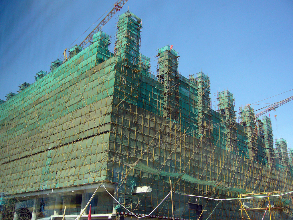 China's National Stadium is the next-door neighbour to the National Swimming Centre in Beijing's Olympic Green. The pillars will support a wave-like roof profile.